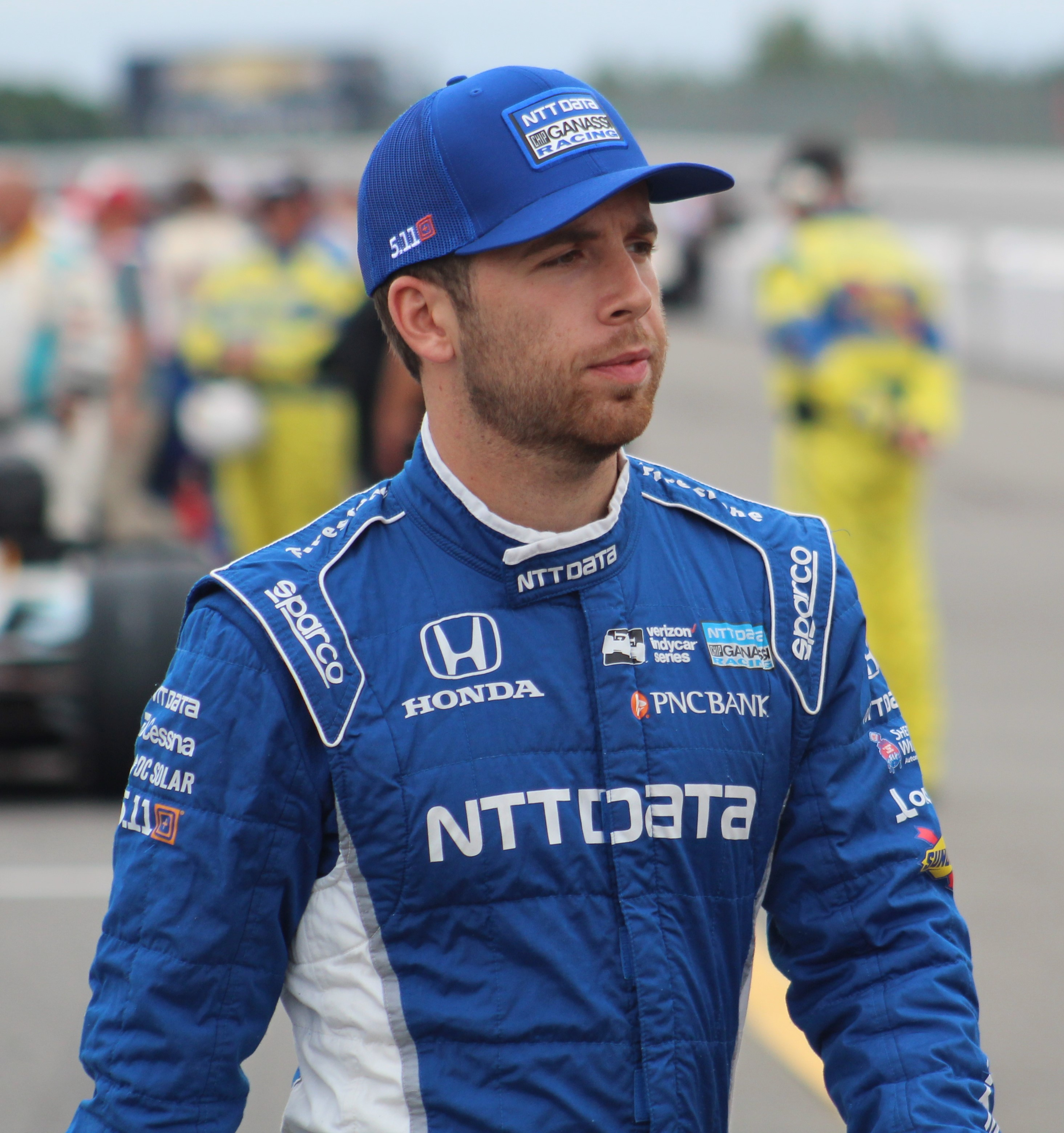 Ed Jones 2018 ABC Supply 500 IndyCar race at Pocono Raceway